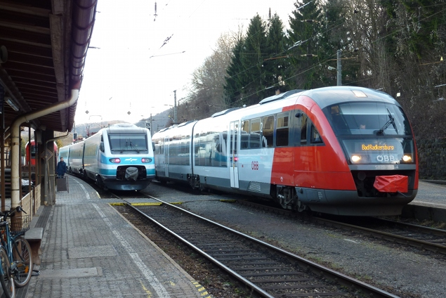 InterCity Slovenija 19 to Maribor and S-Bahn S51 to Bad Radkersburg after 15:00 on Sunday, January 22nd 2012 in Spielfeld/Špilje